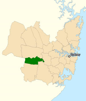 This image incorporates data that is: © Commonwealth of Australia (Australian Electoral Commission) 2009 Division of Fowler 2010